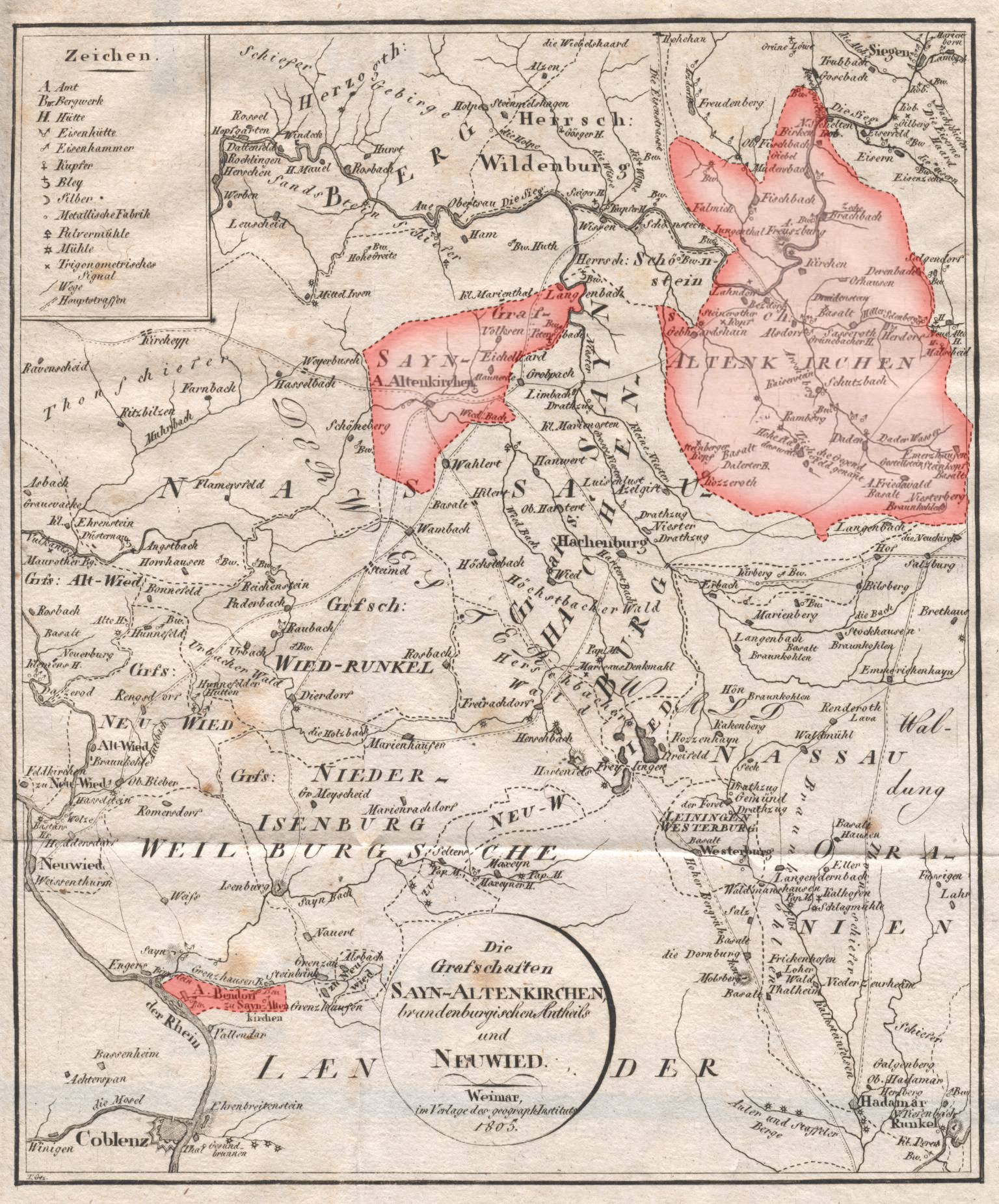 The County Sayn-Altenkirchen. Originated 1805. Dimensions 19 x 23 cm. Scale approx. 1:230.000.